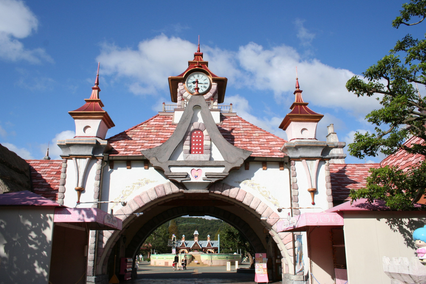 Harmony Land, an amusement park in Hiji Town, Oita, Japan